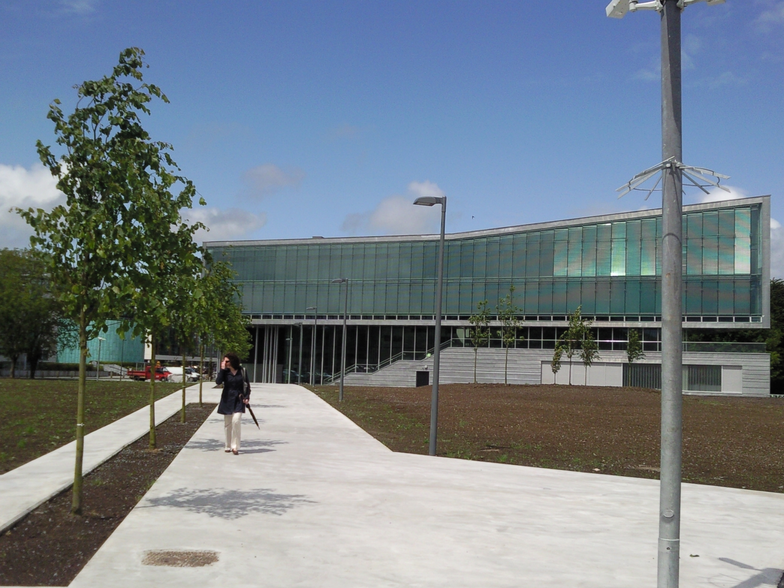 Engineering Building, NUI Galway